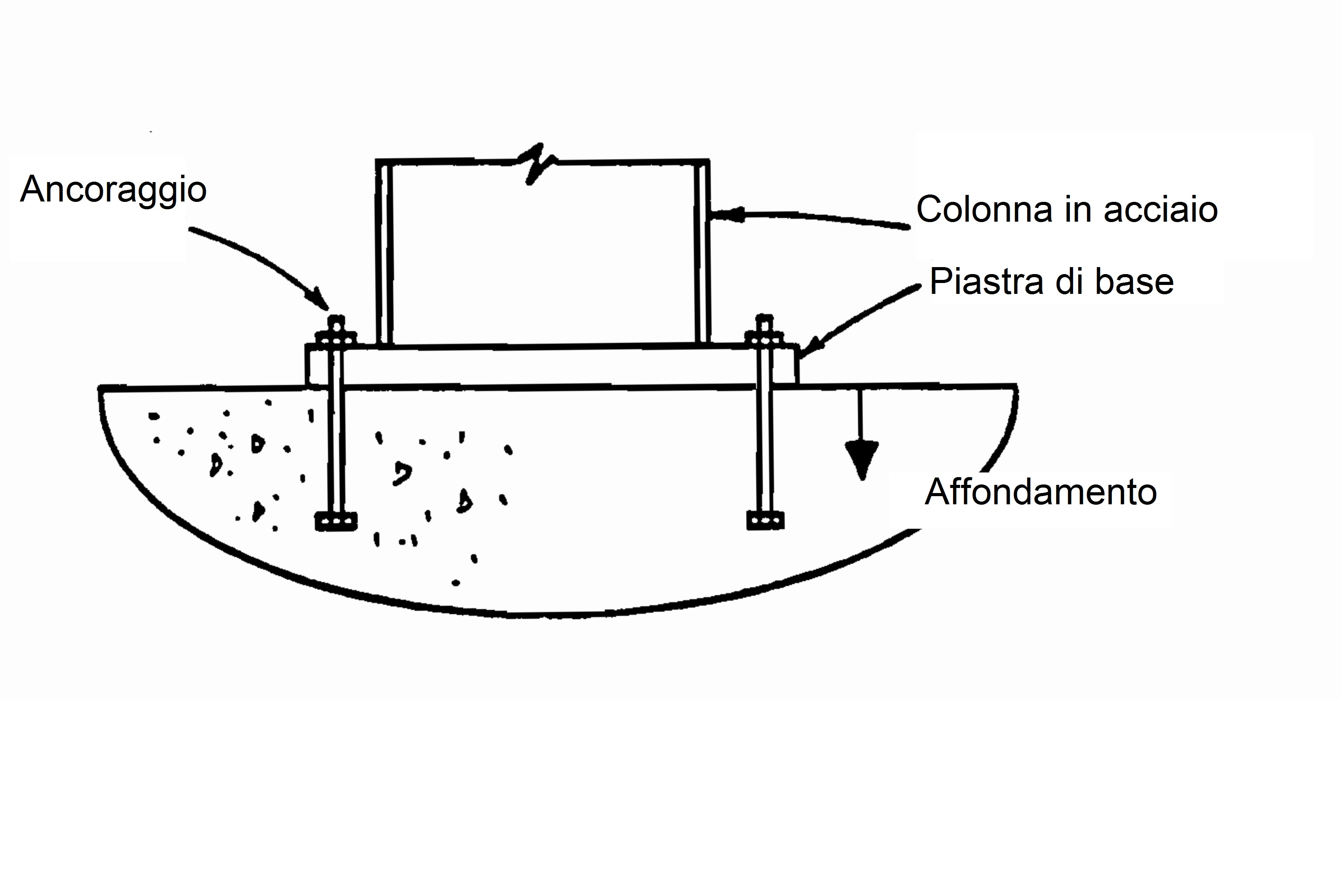 Column-to-foundation connection